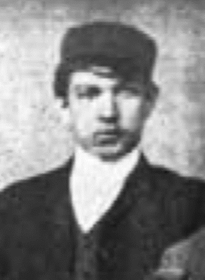 The baltic martyr Konstantīns Ūders (born 19th of February 1870, killed 29th of May 1919) as student around 1890, part of a group photo